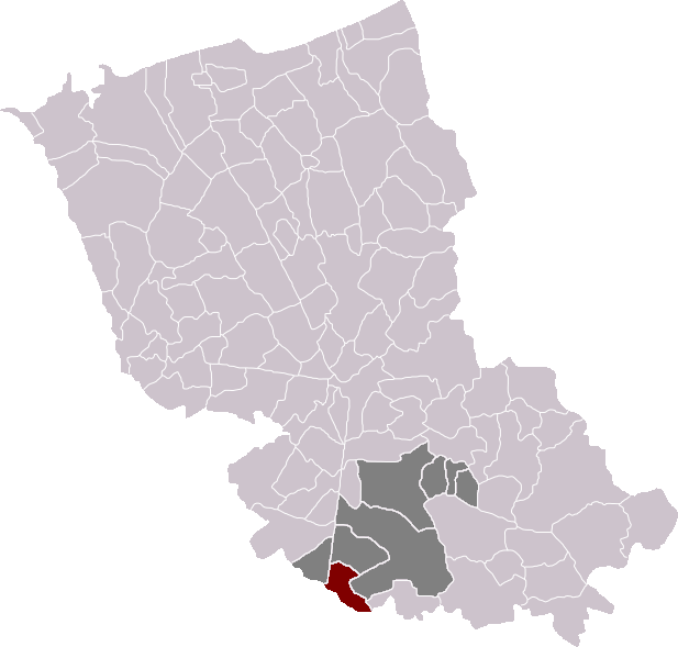 Carte de localisation de la commune de Thiennes / Map of localisation of the municipality of Thiennes